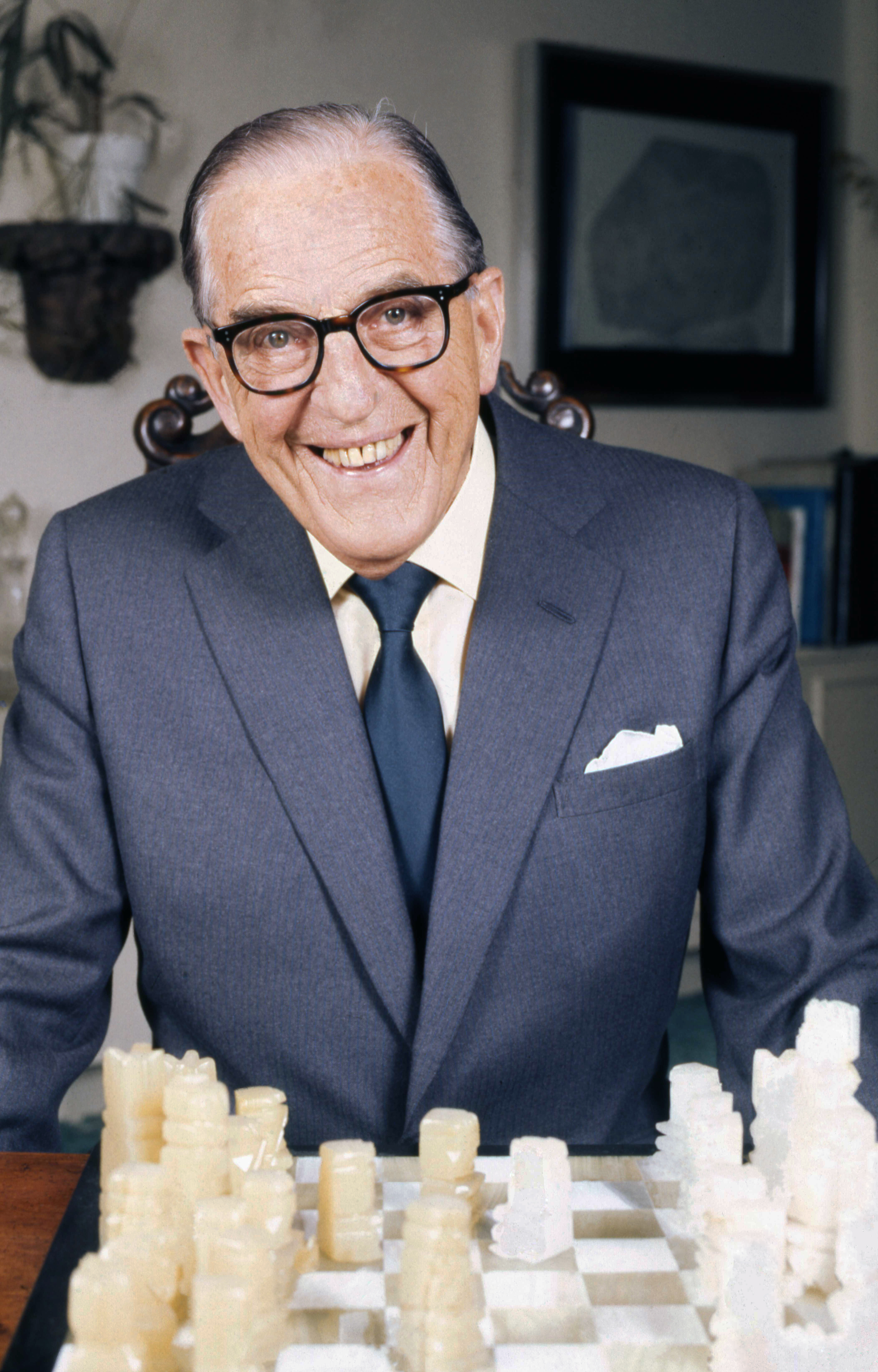 Stanley Holloway taken in photographer's studio London